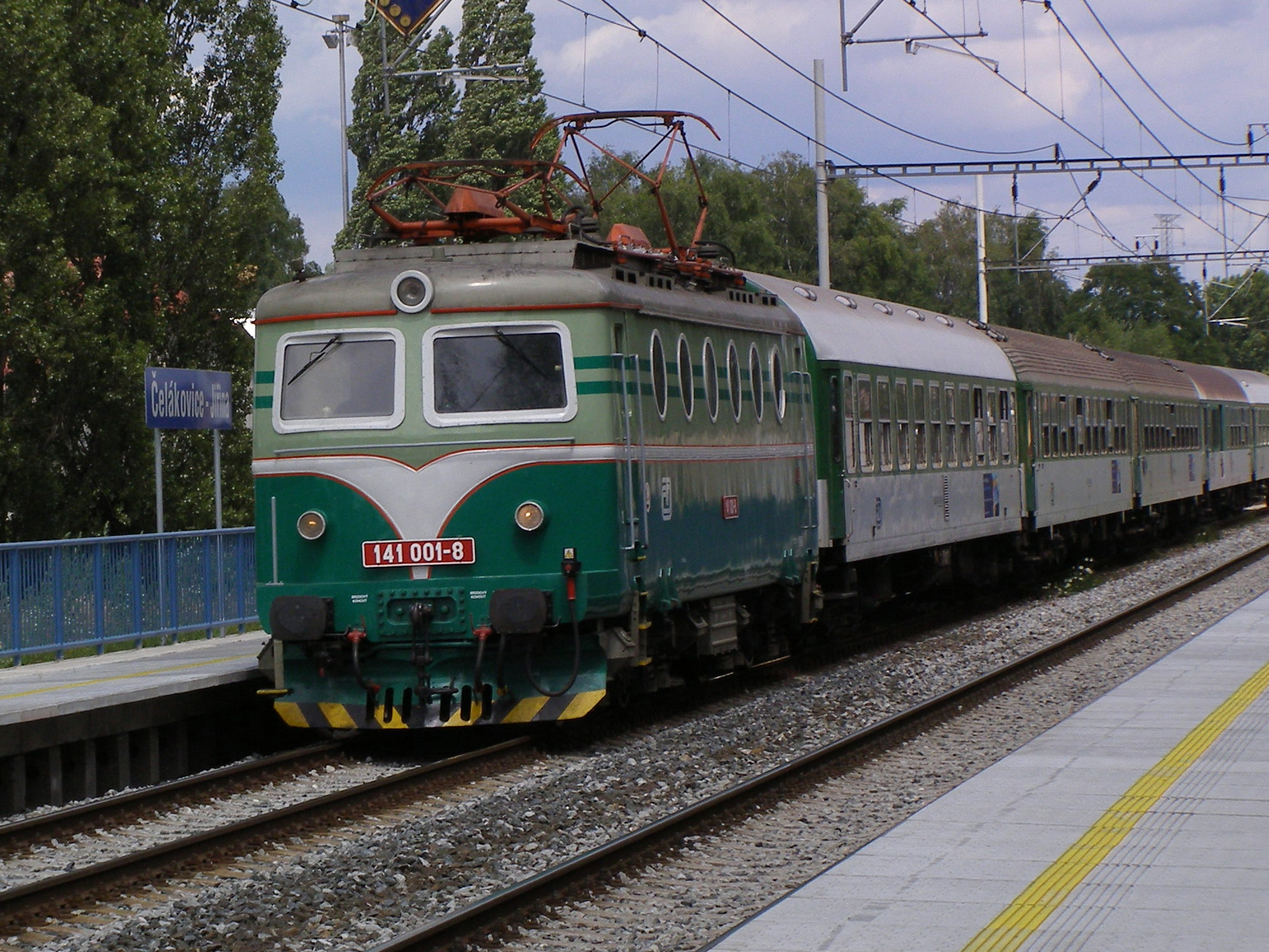 Locomotive 141.001 in Čelákovice-Jiřina